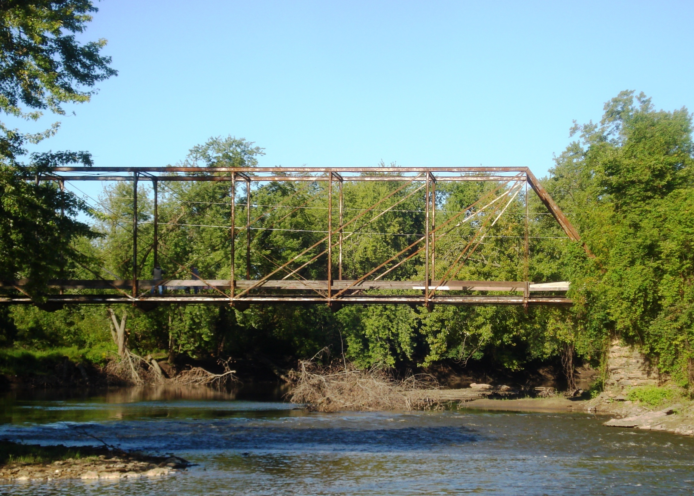 Historic Quarry Bridge located at Three Bridges County Park near Quarry, Iowa.